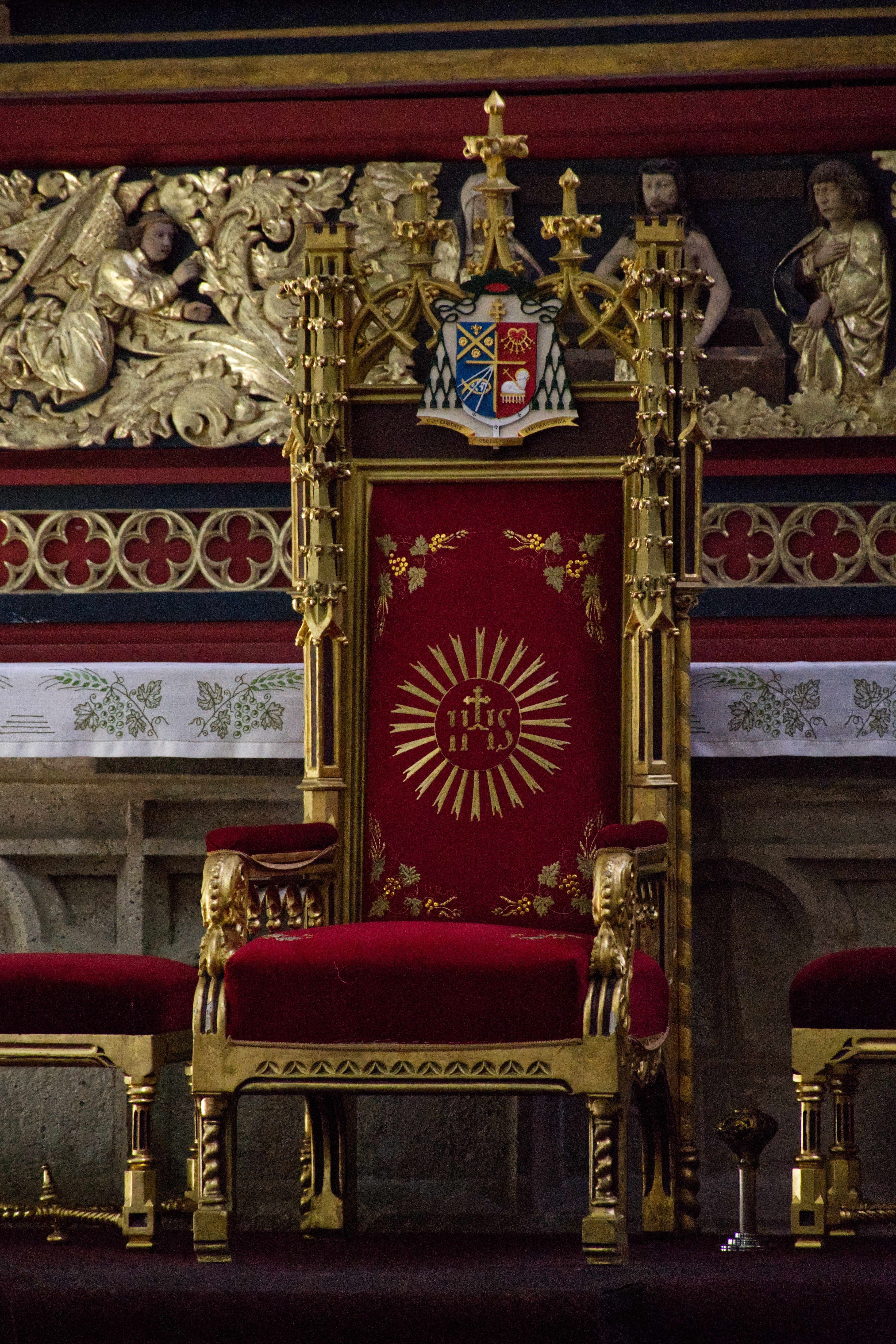 The cathedra (or the archbishop throne) of the Roman Catholic Archdiocese of Košice, St. Elisabeth Cathedral in Košice